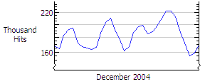 Simple example graph of Web traffic at in December 2004